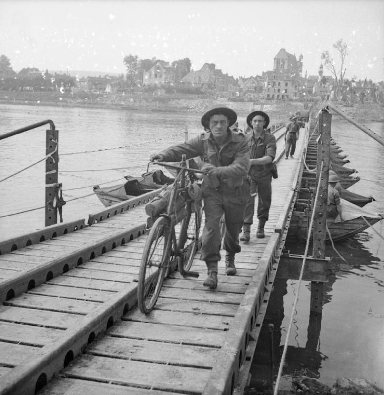 The British Army in North-west Europe 1944-45 Infantry with bicycles cross the River Seine across a Folding Boat Equipment Mk III pontoon bridge at Vernon, 27 August 1944.